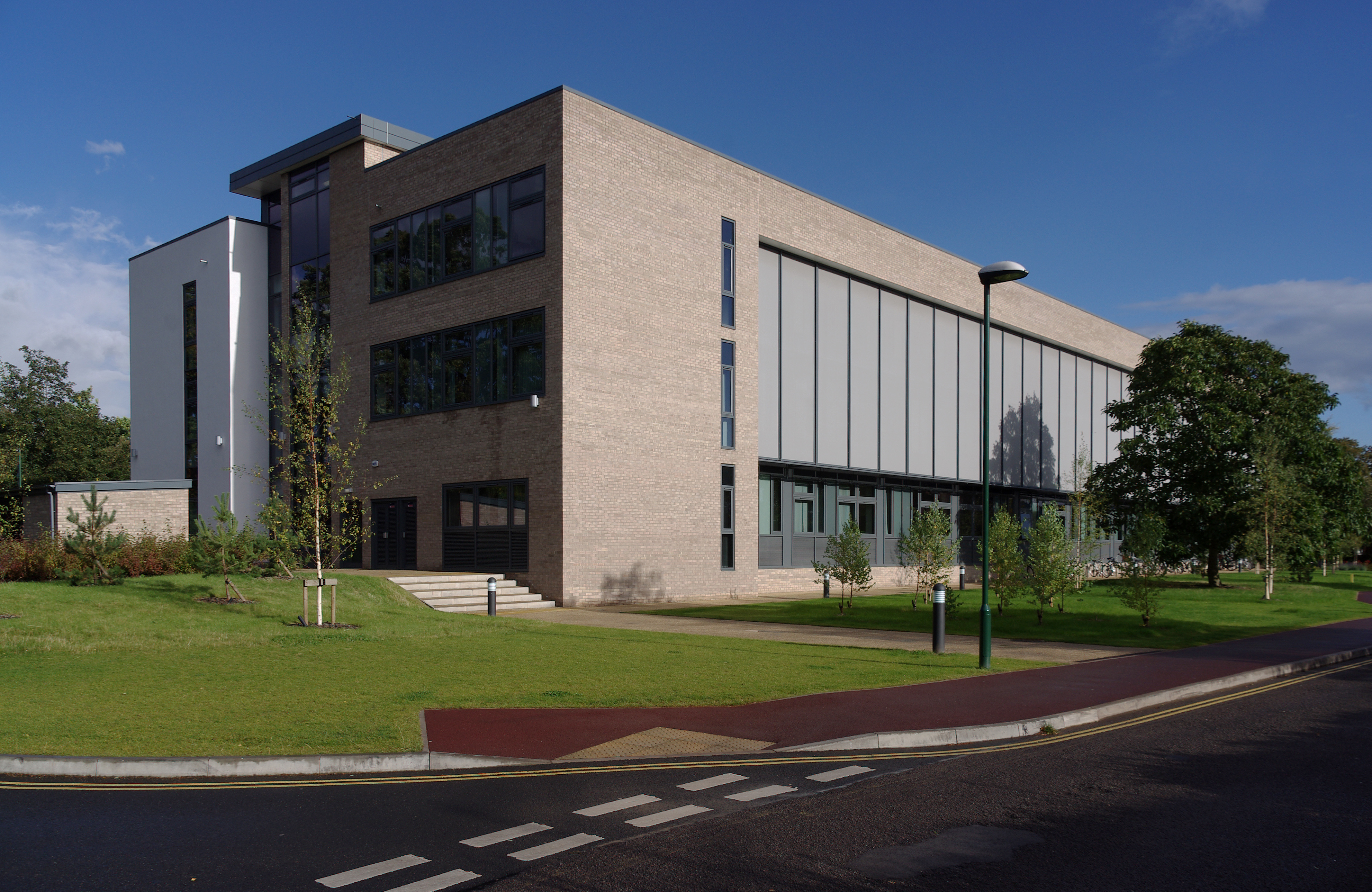 The new Humanities Building on University Park, Nottingham.